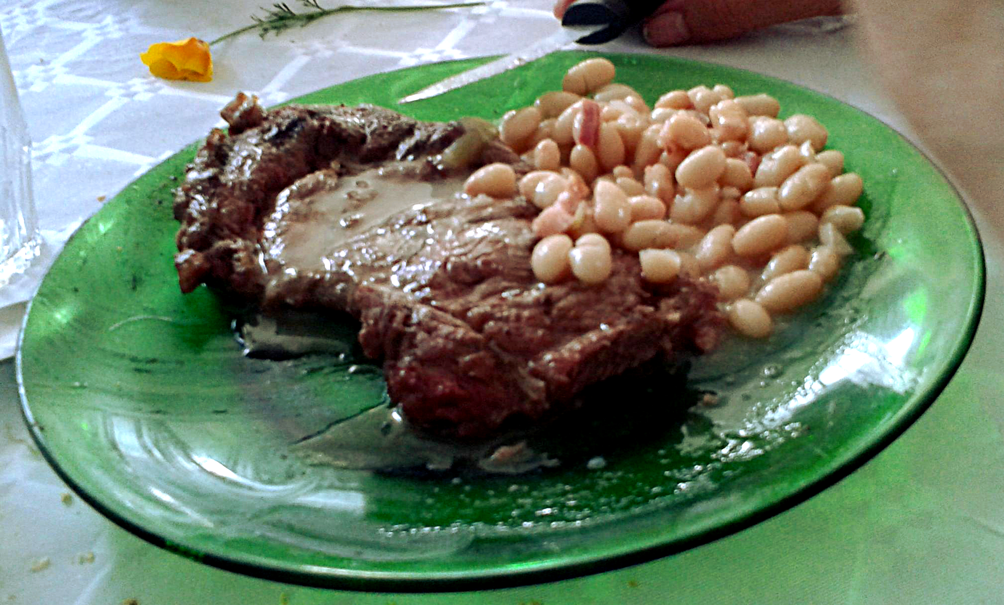 White beans, known as mogettes in Vendée and Saintonge (France), cooked and served with meat.